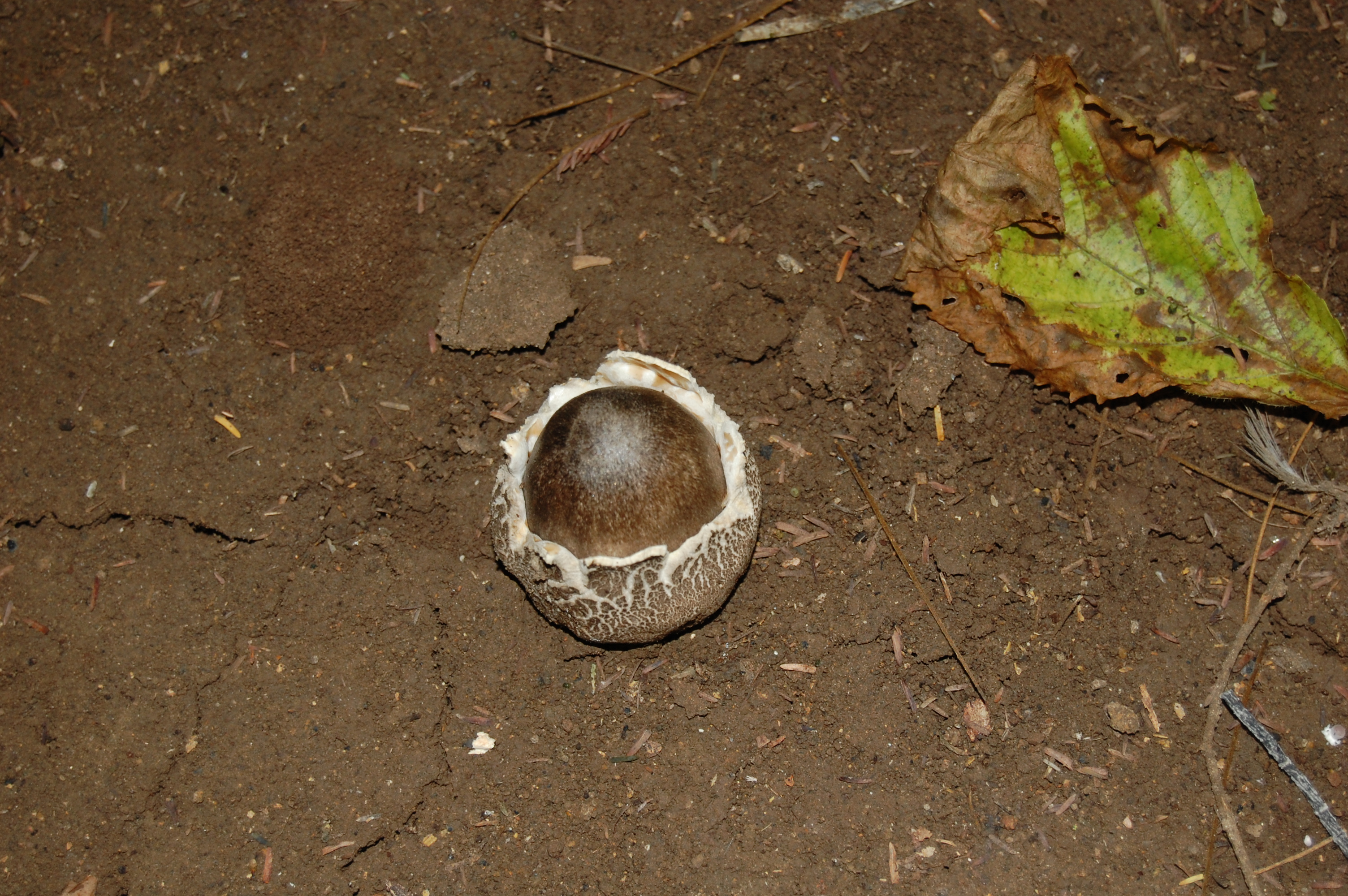 Opening Balanophora indica (Syn. Balanophora fungosa subsp. indica) in Hup Patad cave